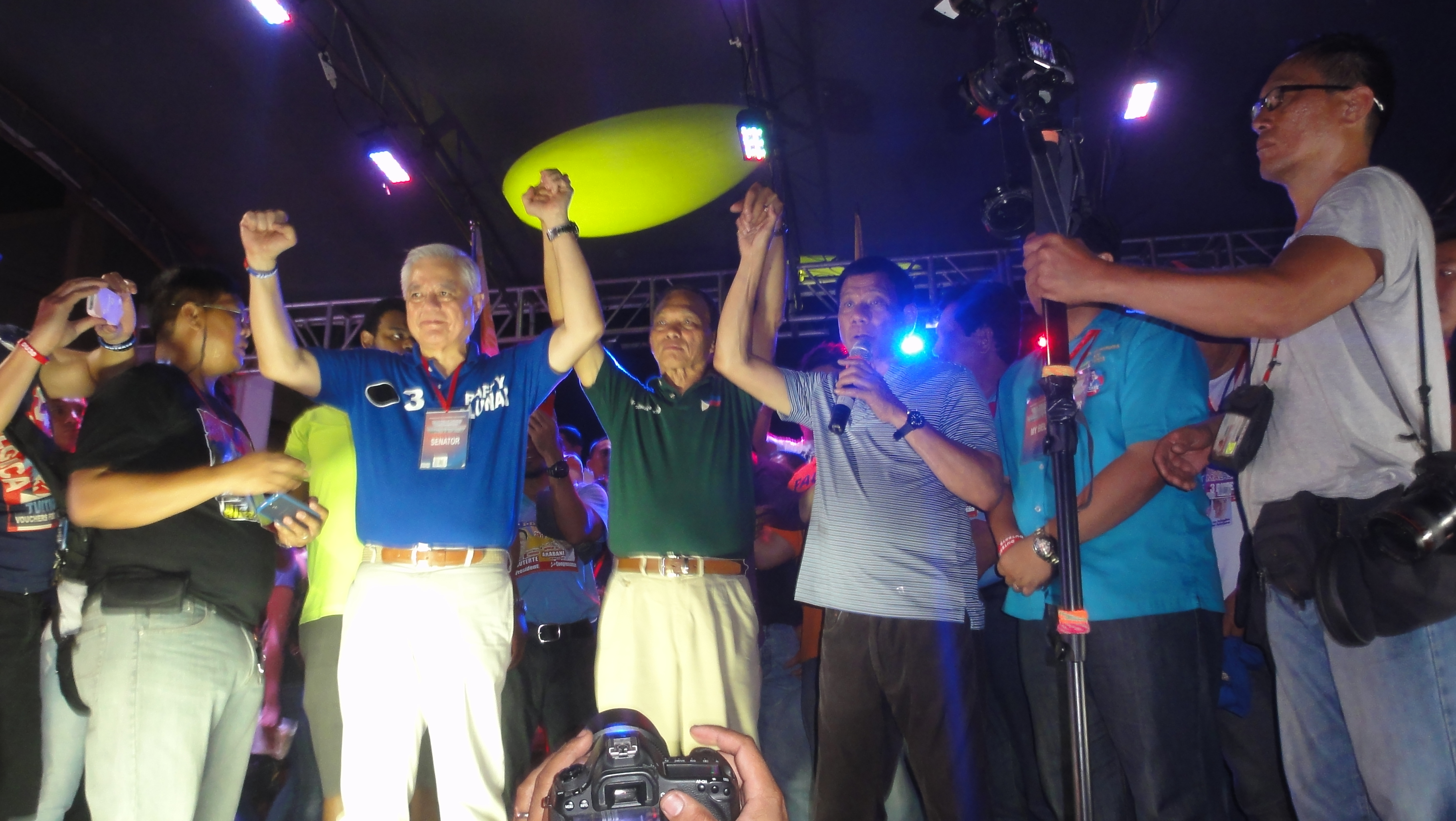 duterte-cayetano campaign 2016 elections